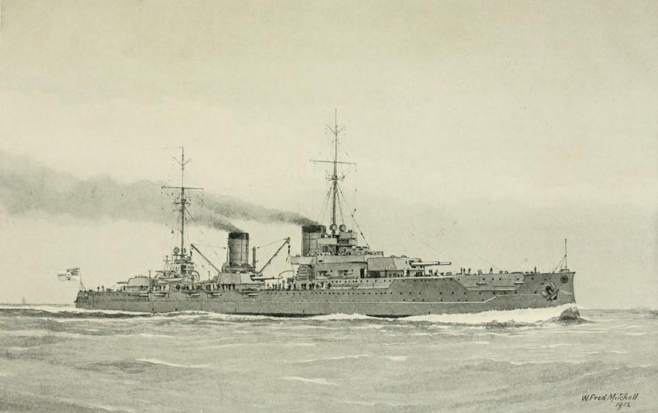 A drawing of the Imperial German battlecruiser SMS Von der Tann